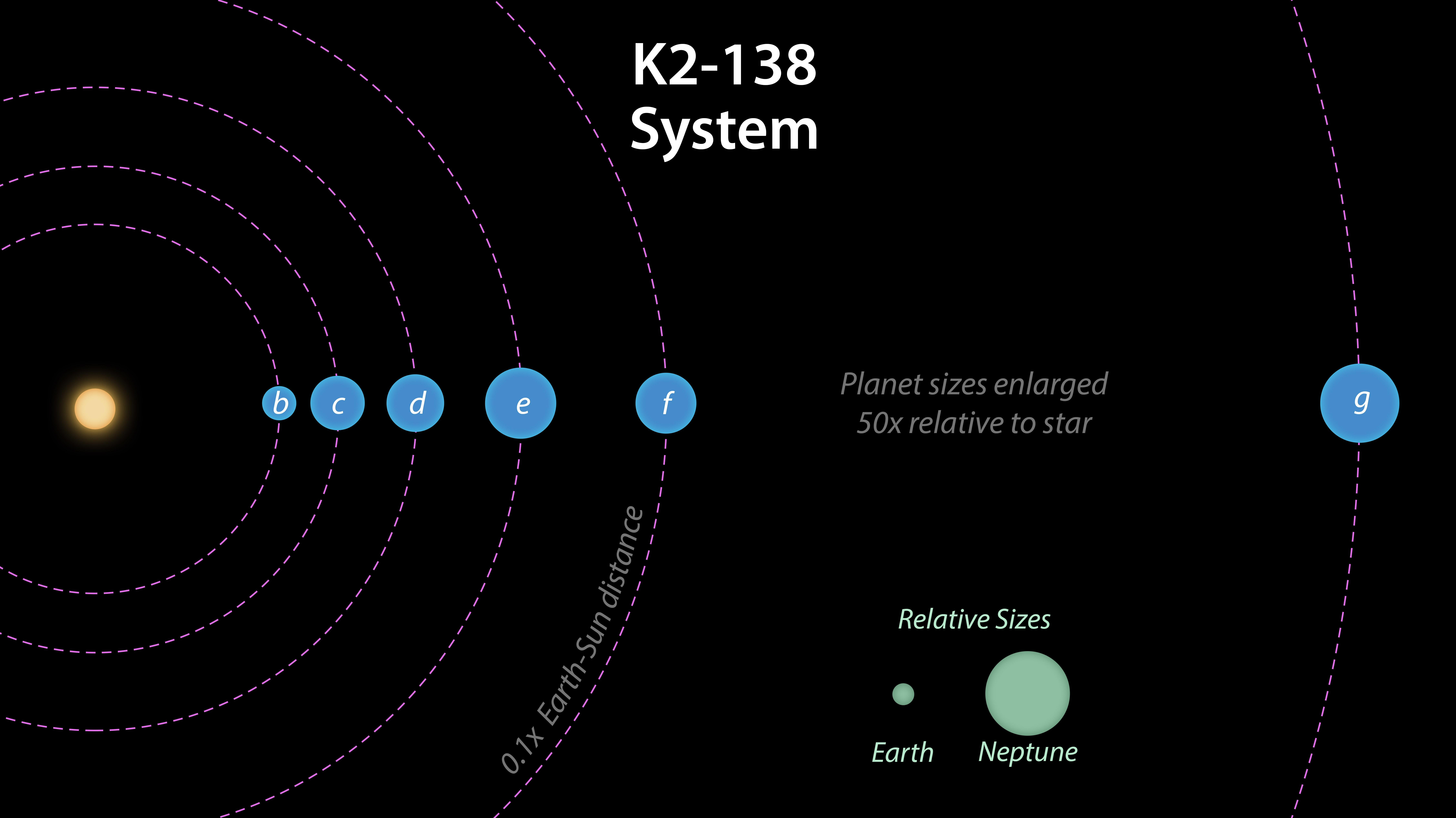 This image shows the estimated radii of the six planets in the planetary system K2-128, as well as their distance from the parent star. The radii of the Earth and Neptune are shown for scale. NASA's Jet Propulsion Laboratory, Pasadena, California, manages the Spitzer Space Telescope mission for NASA's Science Mission Directorate, Washington. Science operations are conducted at the Spitzer Science Center at Caltech in Pasadena, California. Spacecraft operations are based at Lockheed Martin Space Systems Company, Littleton, Colorado. Data are archived at the Infrared Science Archive housed at the Infrared Processing and Analysis Center at Caltech. Caltech manages JPL for NASA. NASA Ames manages the Kepler and K2 missions for NASA's Science Mission Directorate. JPL managed Kepler mission development. Ball Aerospace & Technologies Corporation operates the flight system with support from the Laboratory for Atmospheric and Space Physics at the University of Colorado in Boulder. For more information about the Spitzer mission, visit and For more information on the Kepler and the K2 mission, visit